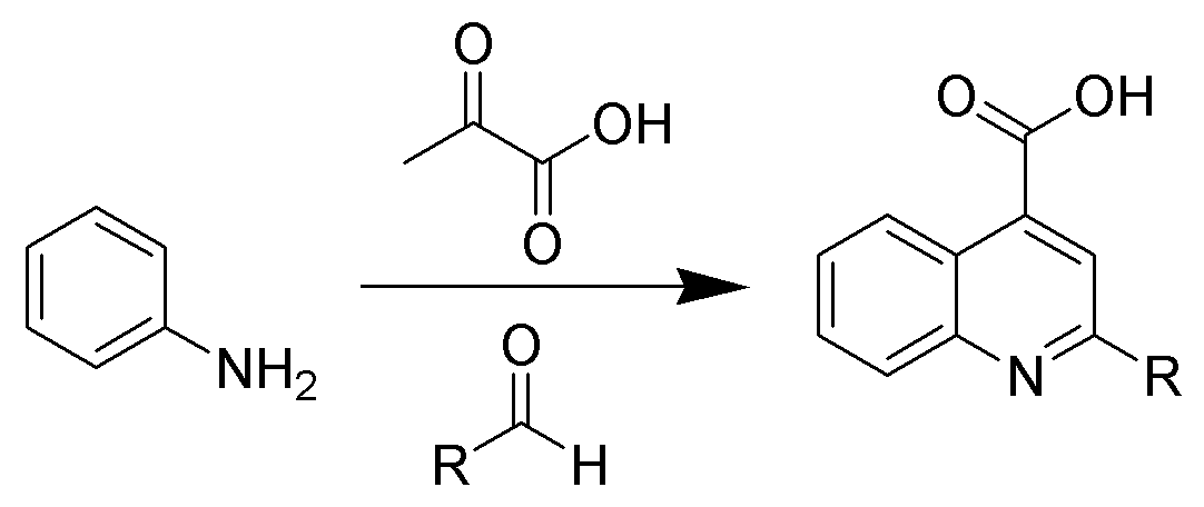 Reaction scheme of the Doebner reaction.